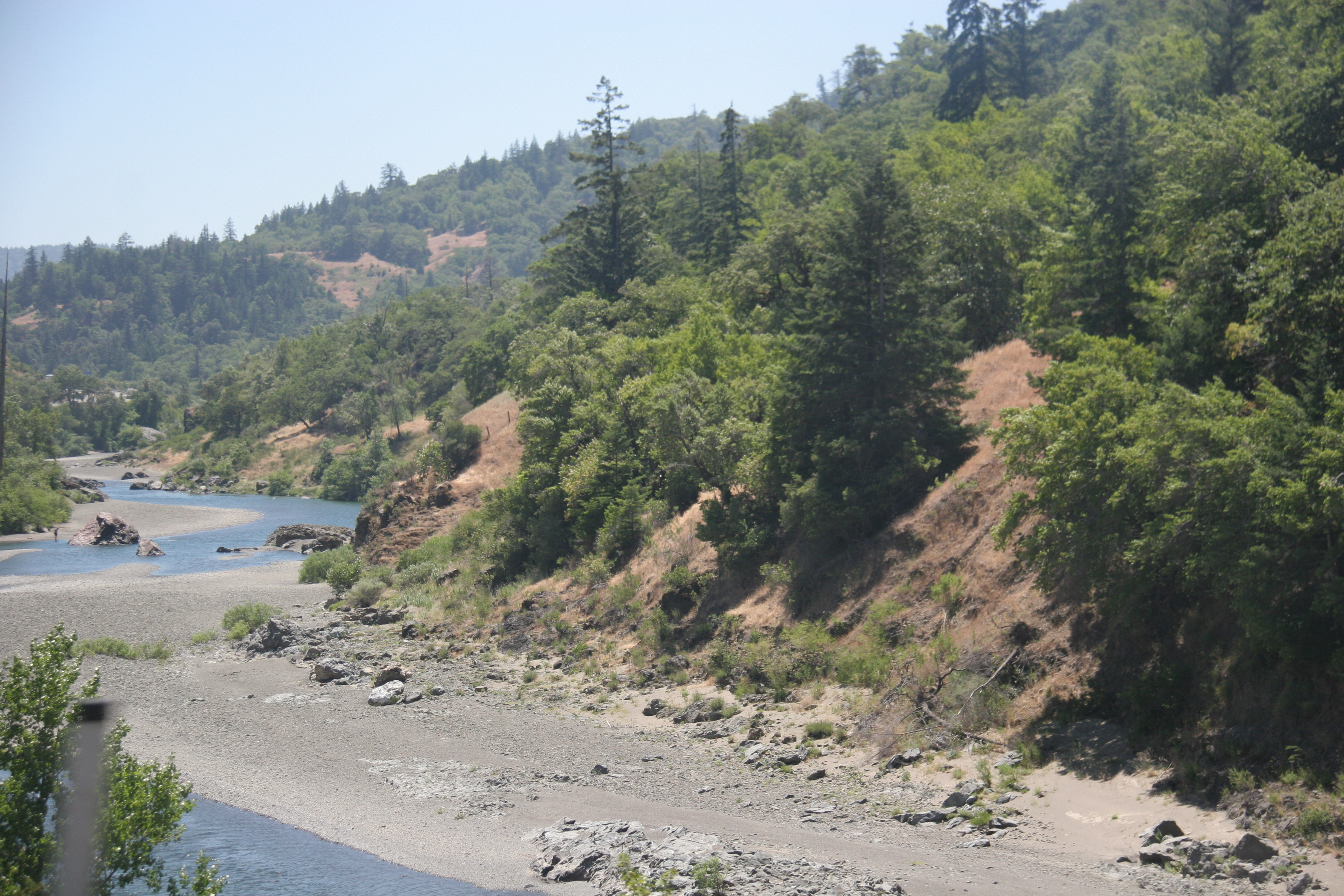 Meander in the South Fork Eel River, about 10 or 15 miles from its mouth